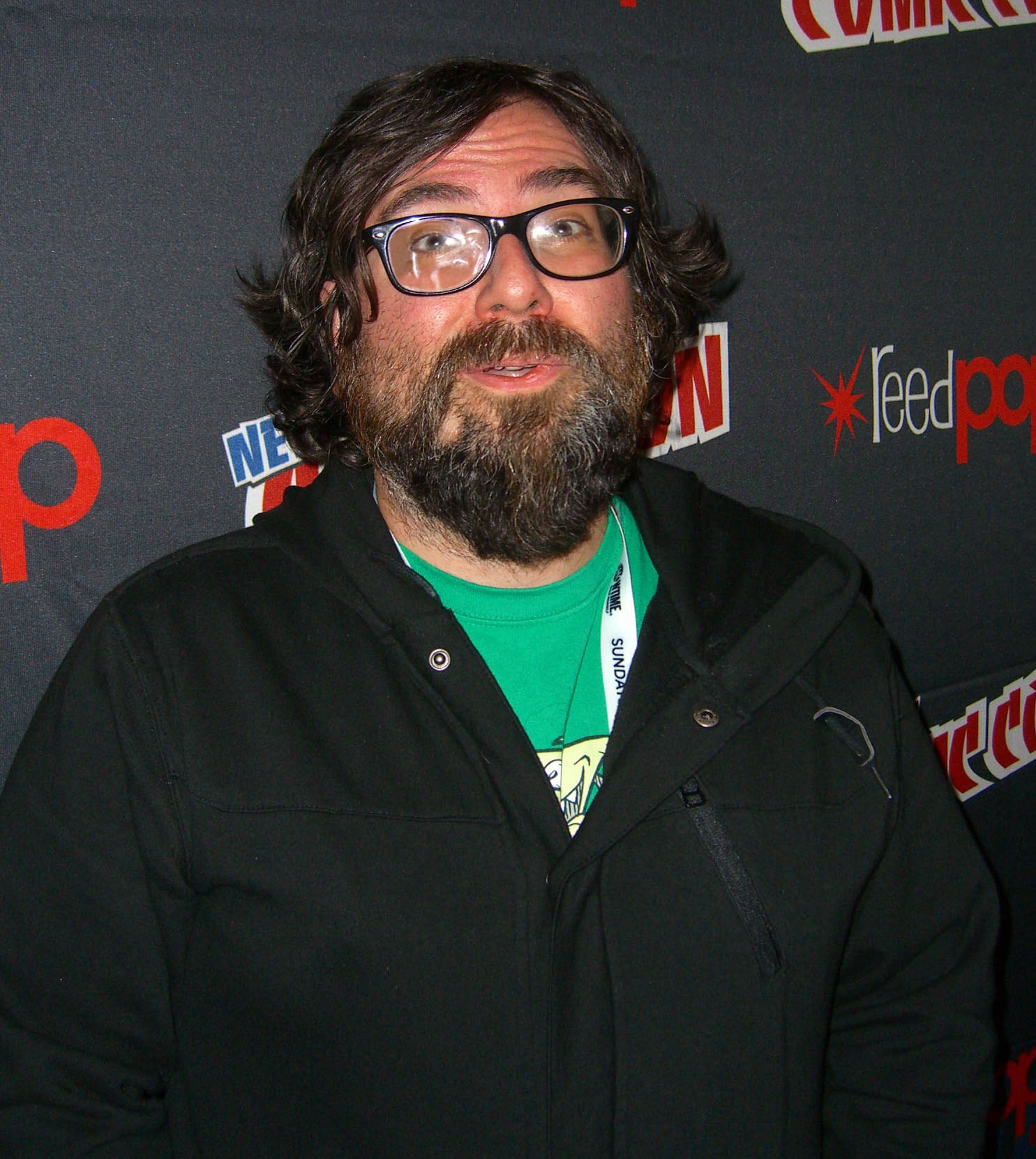 Animator/director Chris Prynoski on Day 2 of the 2012 New York Comic Con, Friday October 12, 2012 at the Jacob K. Javits Convention Center in Manhattan. This photo was created by Luigi Novi. It is not in the public domain, and use of this file outside of the licensing terms is a copyright violation.